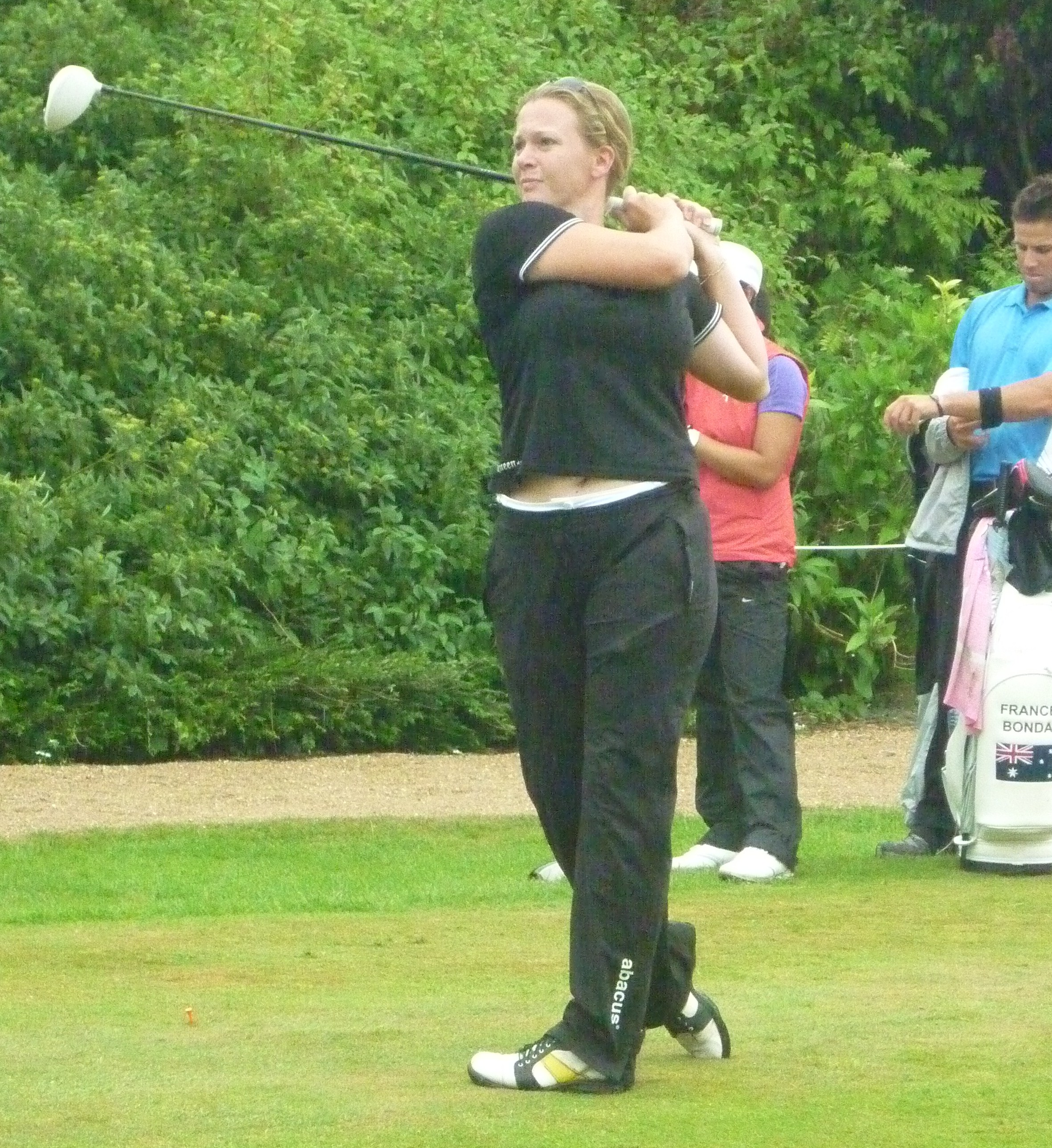 Rebecca Hudson at Ladies Open at Broekpolder GC in the Netherlands